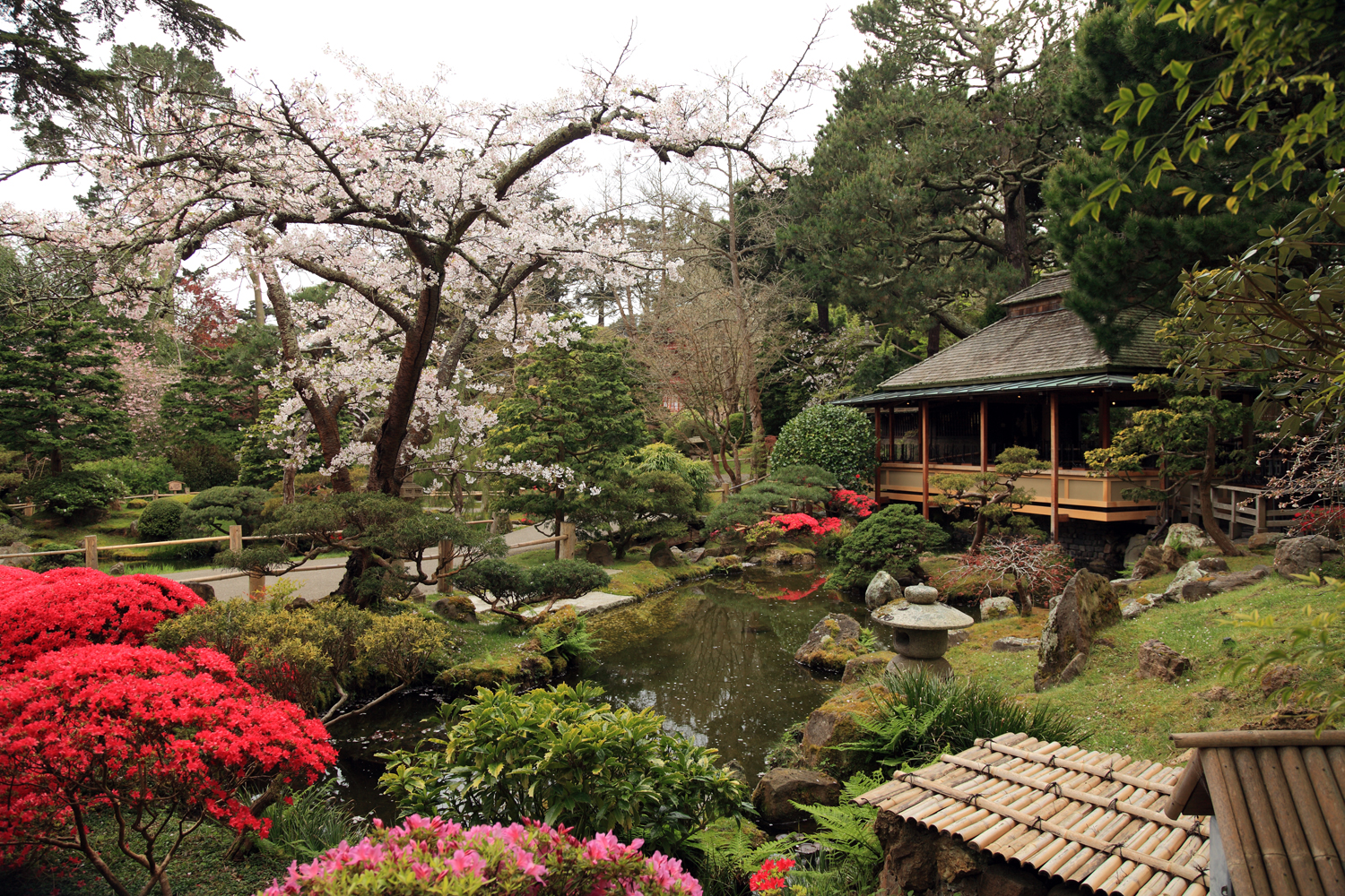 Japanese Tea Garden in San Francisco